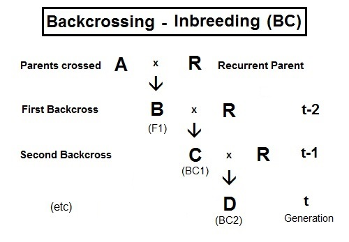 Backcrossing.